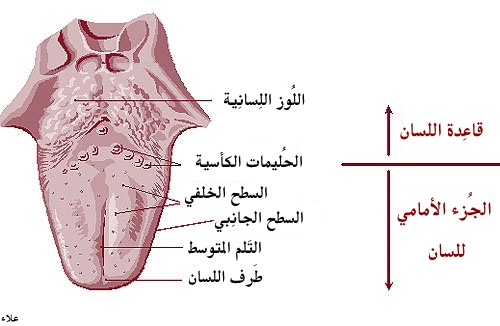 Lingual tonsil and other parts of tongue ..